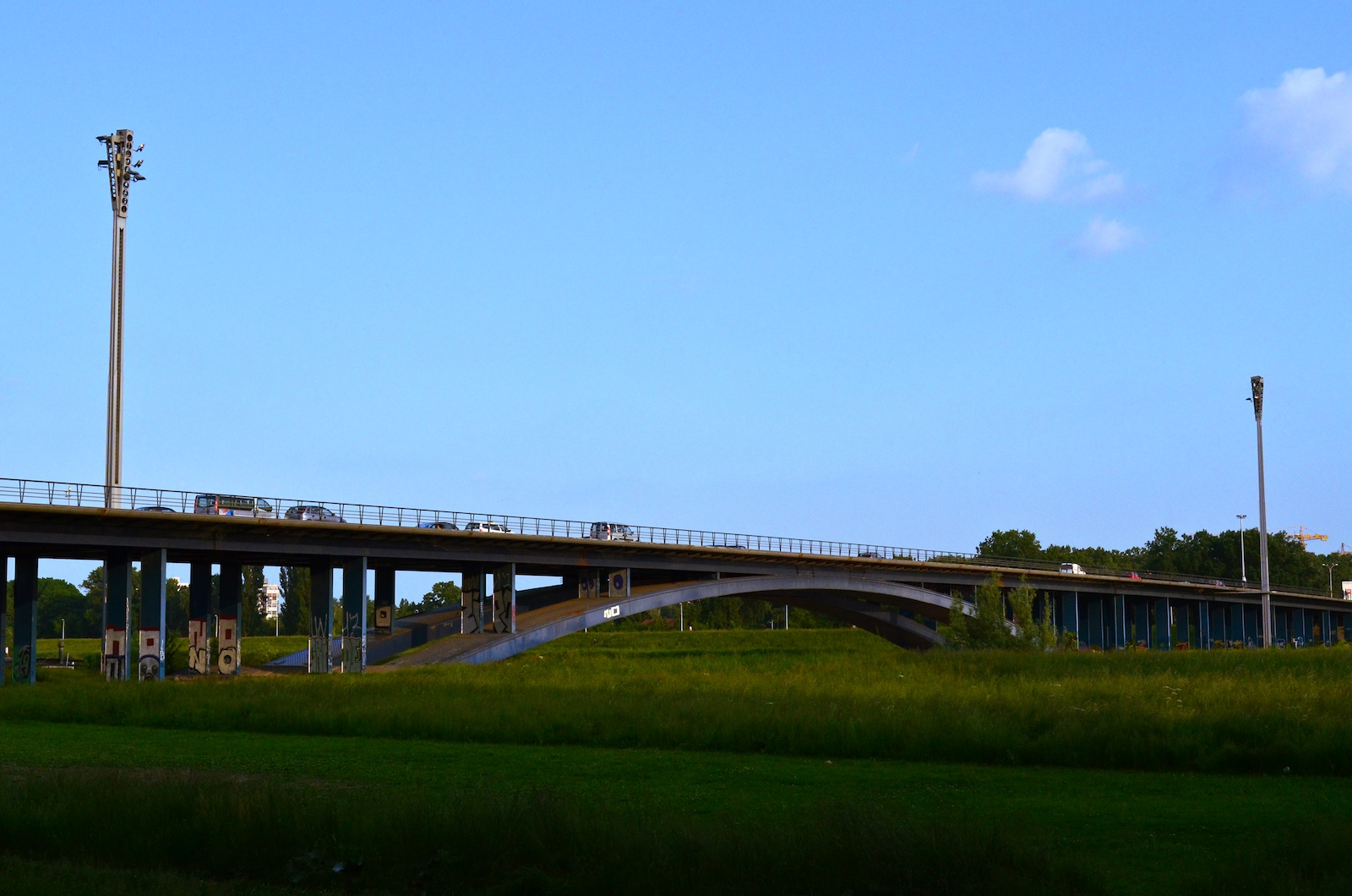 View of Liberty Bridge from northern embankmentHrvatski: Pogled na Most slobode sa lijeve savske obale